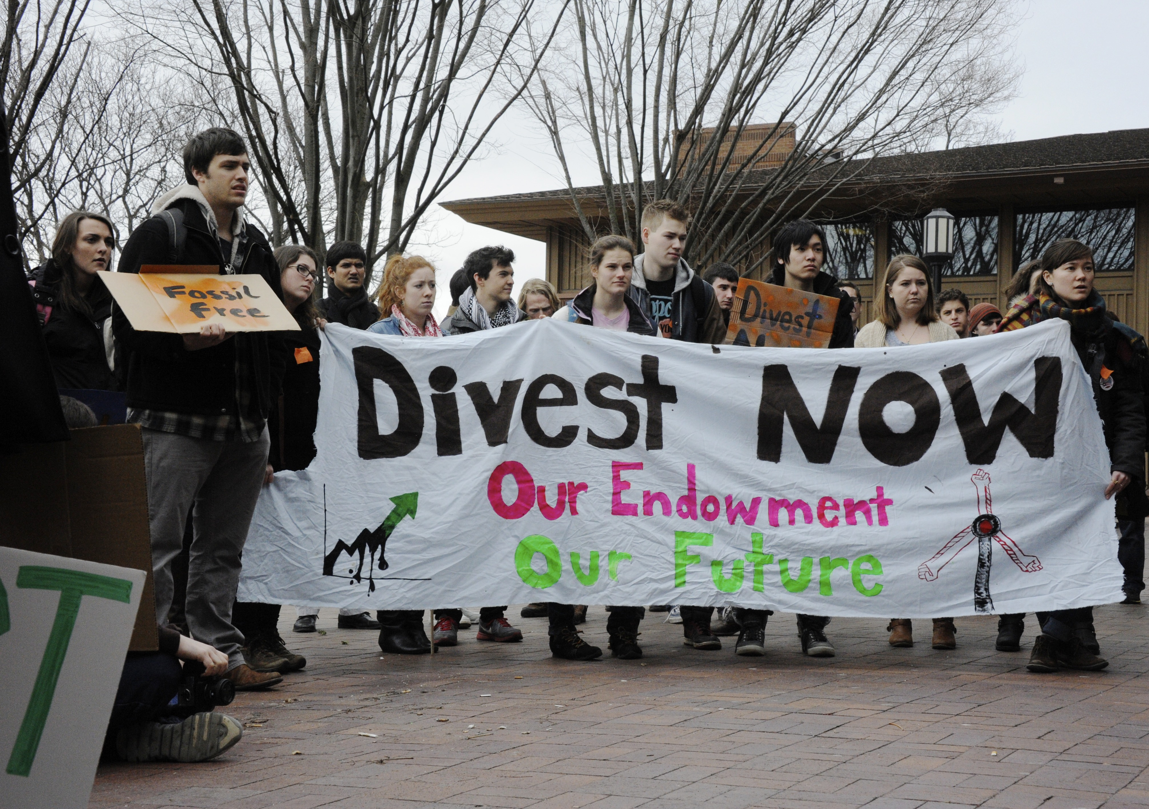 Students at Tufts University "marched forth on March 4th" coinciding with dozens of student-led rallies around the United States. The marches had the objective of pressuring universities to reduce and eventually eliminate investments in fossil-fuel related ventures. Organized nationally through , these rallies included speeches, singing, and chanting of slogans such as "Divestment is a Tactic; Justice is the Goal."